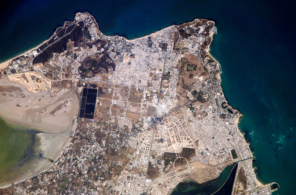 The ancient site of Carthage in North Africa is seen in this photo taken by the International Space Station's Expedition 13 crew. The city-state was founded by Phoenician settlers in 814 B.C., and it subsequently became the seat of a trade empire that controlled much of the western Mediterranean region. Carthage was completely destroyed by the Roman Republic during the Third (and final) Punic War (149-146 B.C.). The end of Carthage has been made notorious by the story that the Romans allegedly sowed the city with salt to ensure that no further rivals to their power would arise there. However, given the great value of salt at the time and the strategic importance of the city's location, scholars dispute whether the event actually occurred. Following the destruction of Carthage, Roman dominance of the Mediterranean continued until the fall of the Western Empire in 476 A.D. Modern Carthage is a wealthy suburb of the Tunis metropolitan area (the center of which is located to the southwest of the image). Dense concentrations of white rooftops are obvious in the residential subdivisions to the north and south of the ancient city location. Large tracts of new developments appear to be in progress along the curving, light-colored roadways to the west of the historical city (lower image center). The green, shallow waters of an evaporating salty lake are visible at image left. Several such lakes are present in Tunisia and are centers for bird-watching tourism. (Source text)